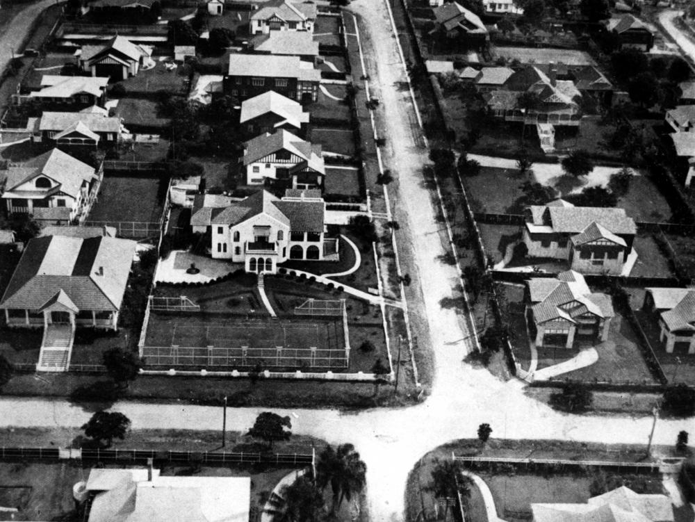 Aerial view of houses in Clayfield, Brisbane, 1930 A modern section of Clayfield. Enderley Road looking across Alexandra Road. In the centre foreground is the residence of Mr H. Drew, with that of Mr A. Midson adjoining on the left. (Description supplied with photograph).